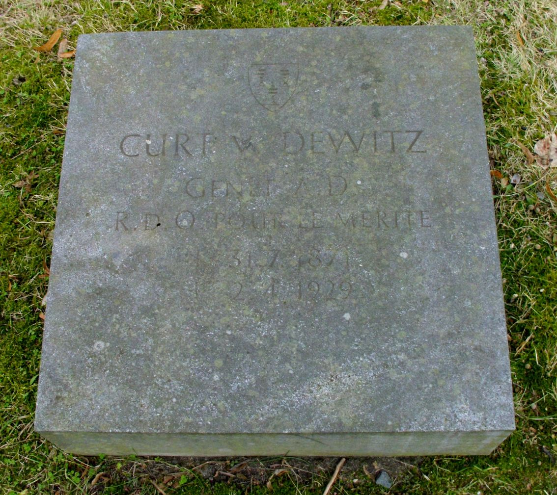 Grave of Curt von Dewitz